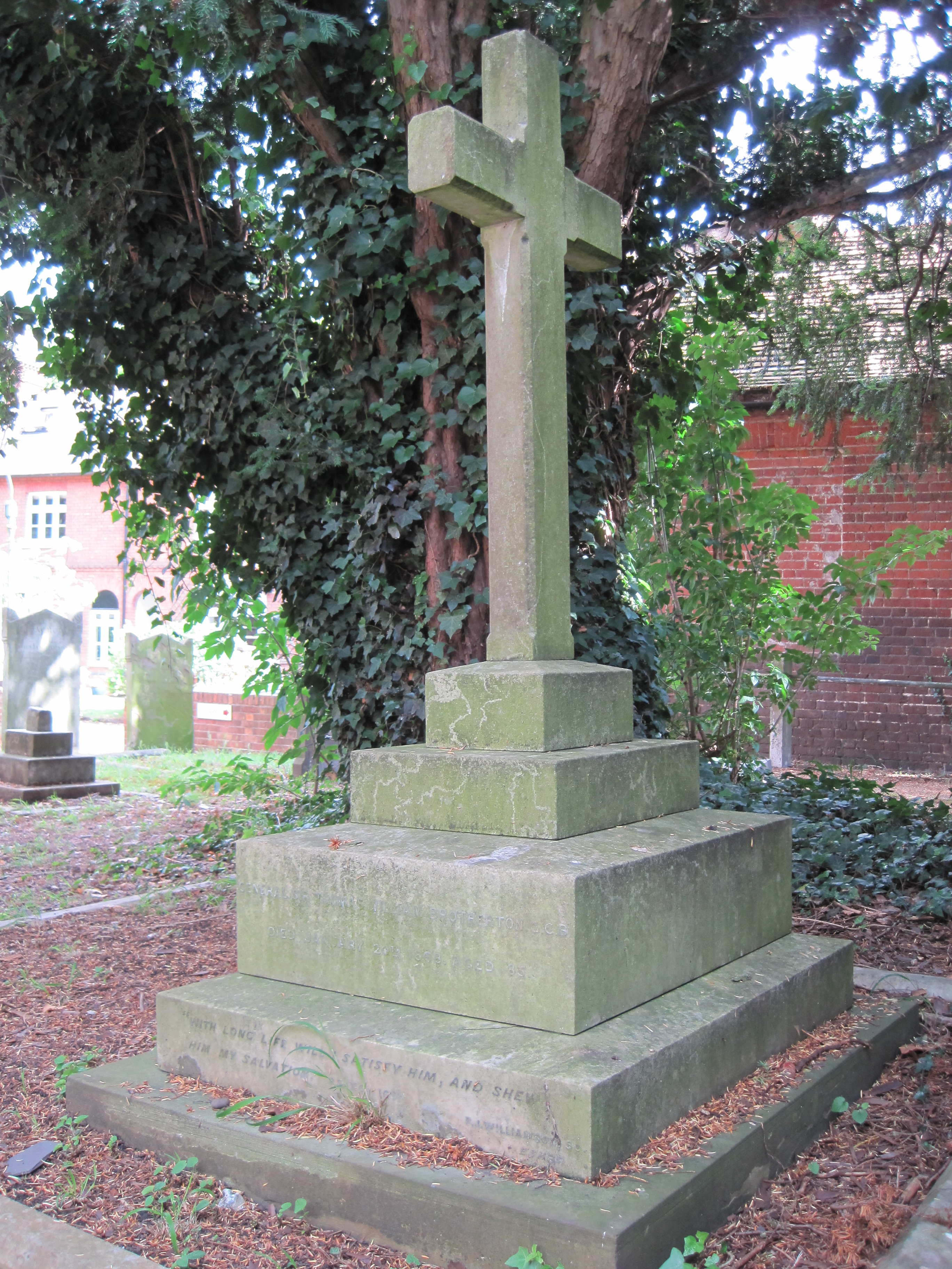 Gravestone of General Sir Thomas William Browne Brotherton (1765-1868), Cobham parish churchyard, Surrey, England.